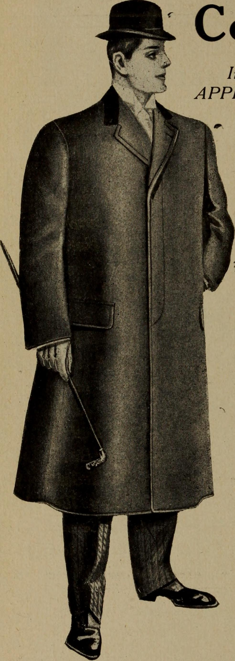 Title: Busyman's Magazine, July-December 1907 Year: 1907 (1900s) Authors: Subjects: Publisher: Toronto Text Appearing Before Image: teed by the fact that we have first classdesigners who make a study of styles, and they giveour coats all the little touches of fashion making themselect and smartlooking. The WORKMANSHIP in Eaton made Coatsis the best that skilled labor can produce, for, ourfactories are among the best equipped in the worldand every process in the making of a coat isthoroughly inspected and criticized by experts, and,in the making of each garment goes years of manu-facturing experience. We buy the MATERIAL direct from reliablemills and every piece must be up to our standard ofquality and is thoroughly examined before being cut into. The quantities we handle and our method of buy-ing for cash only maf^e it possible for us to get everyprice concession to be had, and. making the goodsourselves, Tve eliminate all middle mens profits sothat^ou get a Coat first class in APPEARANCE,WORKMANSHIP and MATERIAL with ourstrongest guarantee to back lU o ^ price that onlysuch manufacturing facilities make possible. Text Appearing After Image: E.3-35 The Coat illustrated is of Fine Imported English Melton Cloth, 30 ounces to the yard, made in Chesterfield style, 46 inches long, solid material, black satin shoulder and sleeve linings, hand worked button holes, hand padded collars, bluff edge lapels, as cut E.3-3 5 $22.50 T. EATON C9 LIMITED TORONTO CANADA When writing advertisers kindly mention Busy Mans Magazine. The BUSY MANSMAGAZINE Vol XV DECEMBER 190 7 No 2 4=^ A Canadian Wit A Brilliant Entertainer and Most Successful Business Man By C. Egbert Robmaster